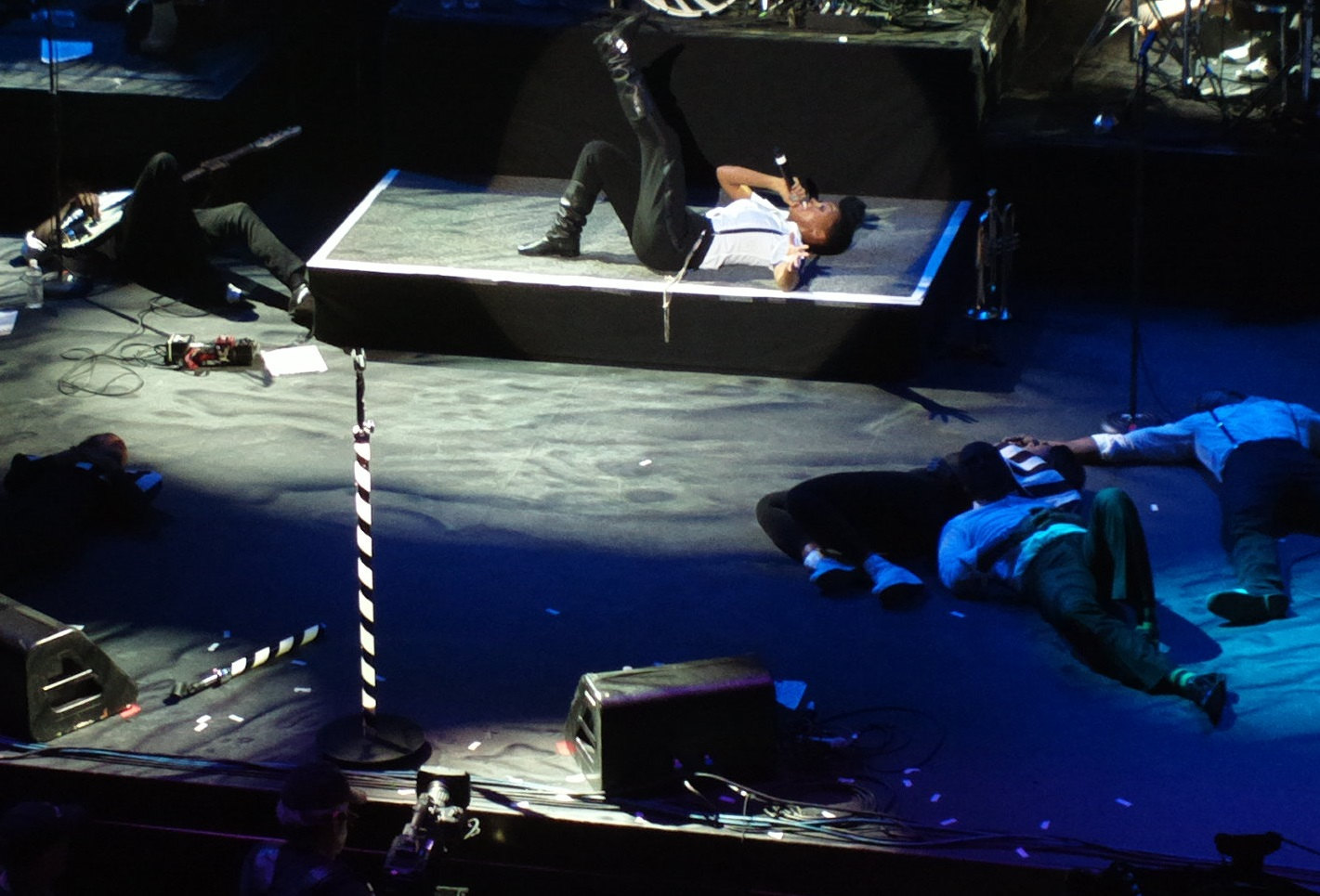 Janelle Monae performing "Come Alive (The War of the Roses)" in Los Angeles on September 25, 2012.